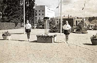 Olympic Flame in Kirkkopuisto in Jyväskylä, Finland in 1952